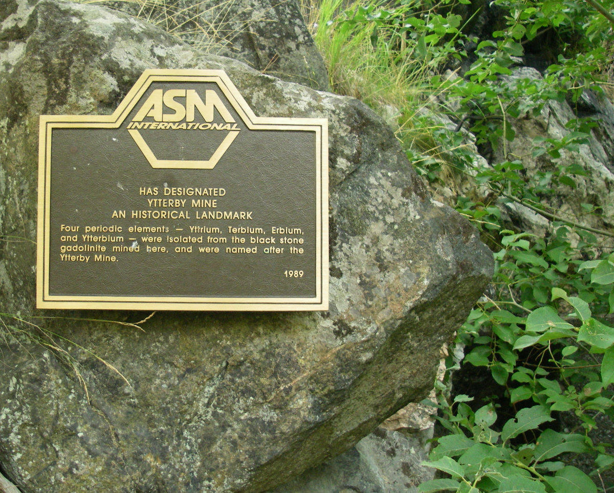 Memorial plaque of the ASM International at Ytterby mine